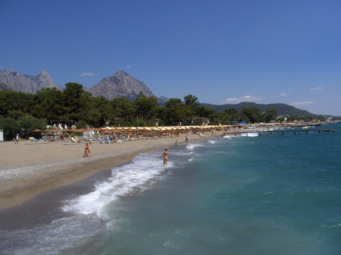 The Beach of Joy Kimeros Ma Biche Hotel, Goynuk, Kemer, Turkey